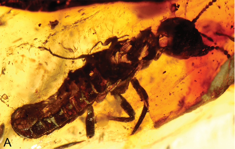 Photomicrograph of dealate female of Prostylotermes kamboja Engel & Grimaldi, gen. et sp. n. (Stylotermitidae: Tad-321C). A Dorsal view of female